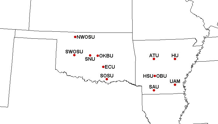 Locations of GAC schools